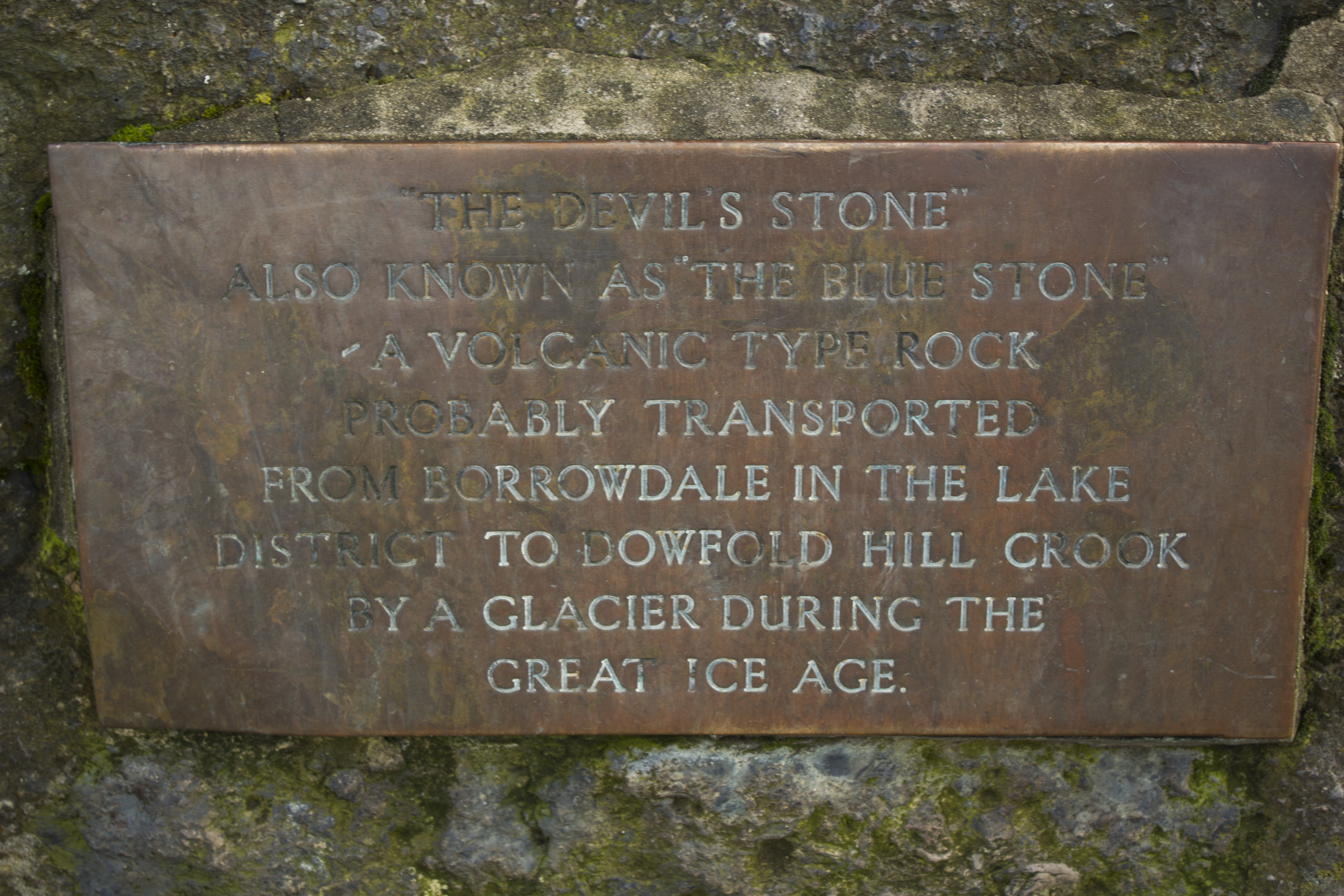 Plaque reads: ""The Devils's Stone". Also known as "The Blue Stone". A volcanic type rock probably transported from Borrowdale in the Lake District to Dowfold Hill Crook by a glacier during the Great Ice Age.